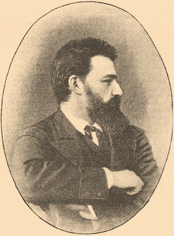 Illustration from Brockhaus and Efron Jewish Encyclopedia (1906—1913)